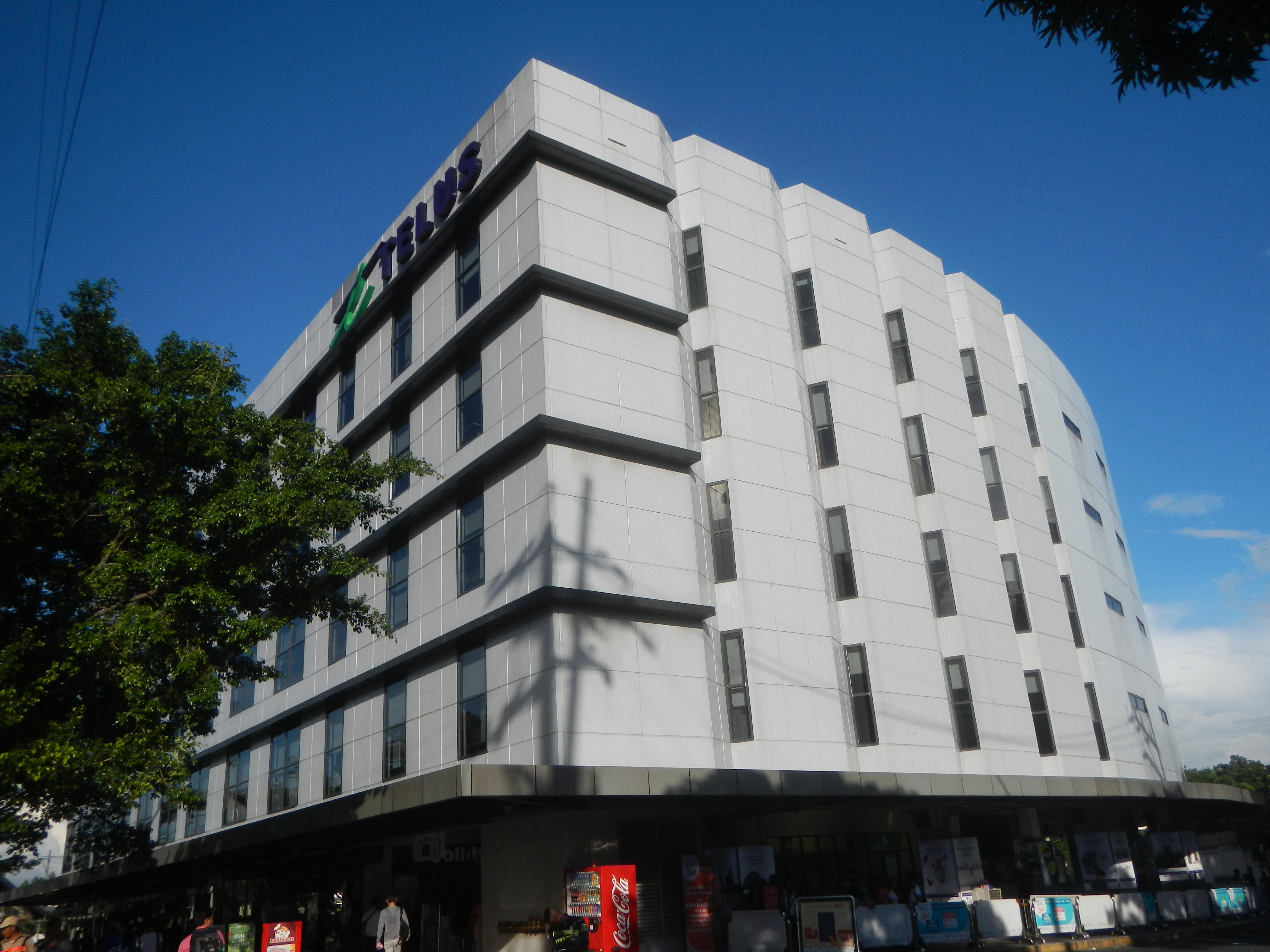 Telus - Makati City Telus International Ayala Footbridge McKinley Road Forbes Park, Makati City beside List of barangays of Metro Manila, Legislative districts of Makati, Dasmariñas Village 14°32'26"N 121°1'41"E Dasmariñas Village Makati City from Magallanes Interchange corner South Luzon Expressway corner EDSA (road) Epifanio de los Santos Avenue (EDSA, Makati City - Pasay City section) (Note: Judge Florentino Floro, the owner, to repeat, Donor Florentino Floro of all these photos hereby donate gratuitously, freely and unconditionally all these photos to and for Wikimedia Commons, exclusively, for public use of the public domain, and again without any condition whatsoever).